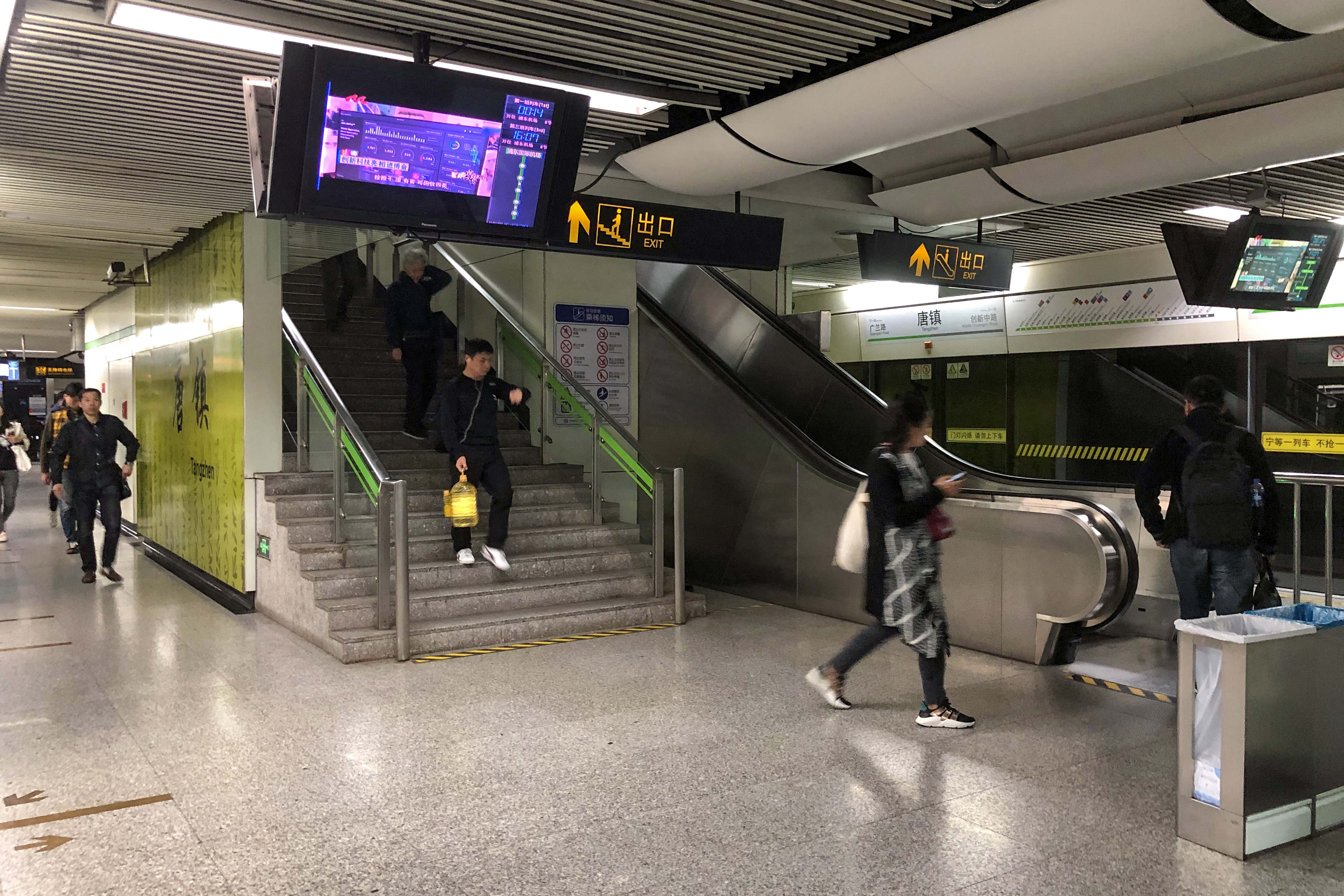 Yes, no interchanges!